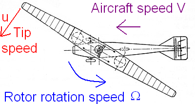 Diagram of parameters for Aspect rato in rotorcrafts. Mu=V/oR